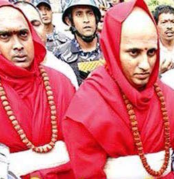 Raghavendra Bhat (right) and Girish Bhatt in traditional Priestly uniform of Pashupatinath Temple